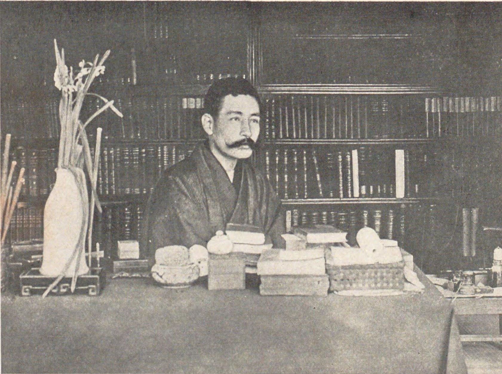 Natsume Soseki in the house at Sendagi, Tokyo (March 1906).